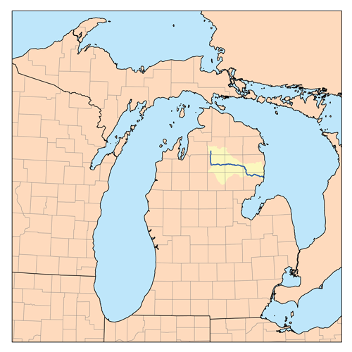 Map of the Au Sable River watershed.